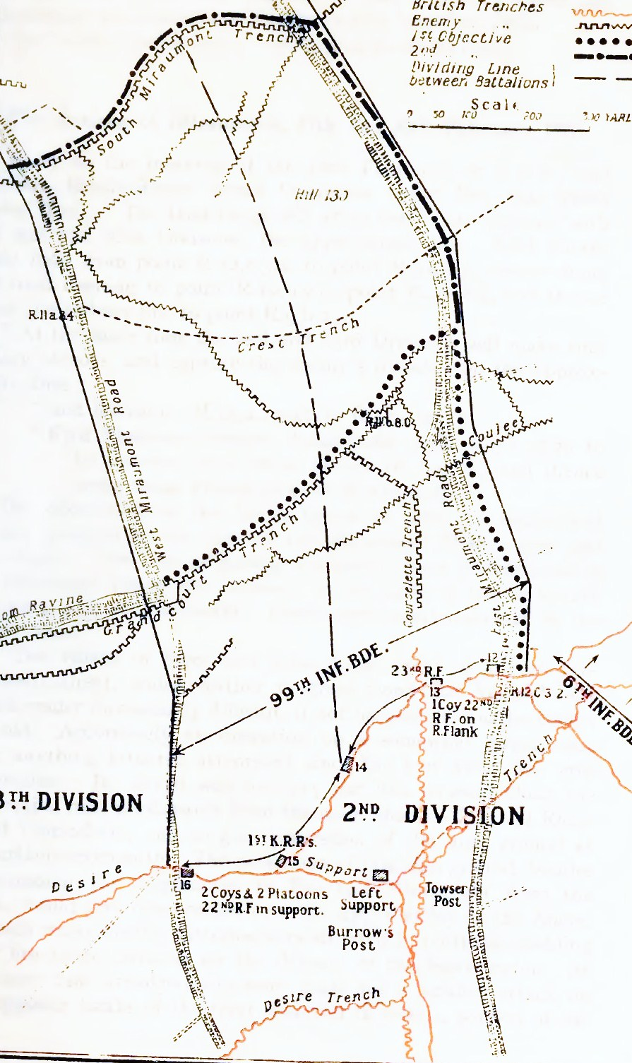 Diagram of the 2nd Division operations at the Actions of Miraumont 17-18 February 1917